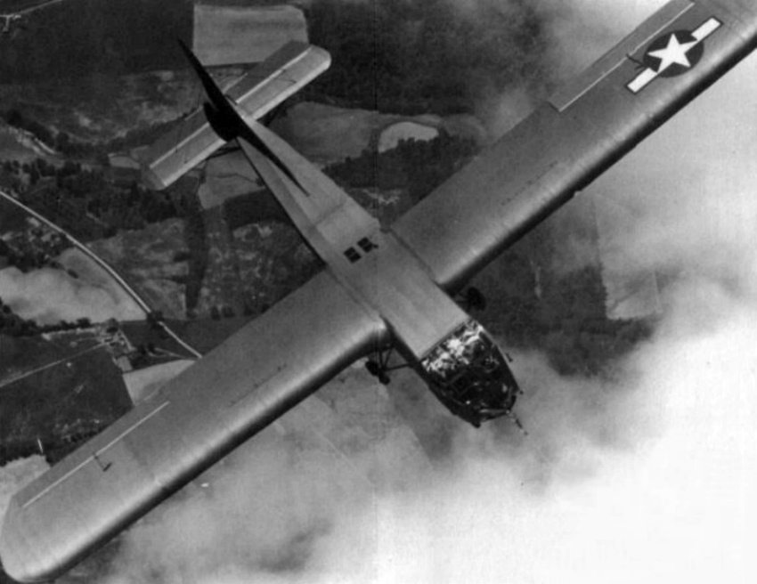 A U.S. Army Air Force Waco CG-4A glider.